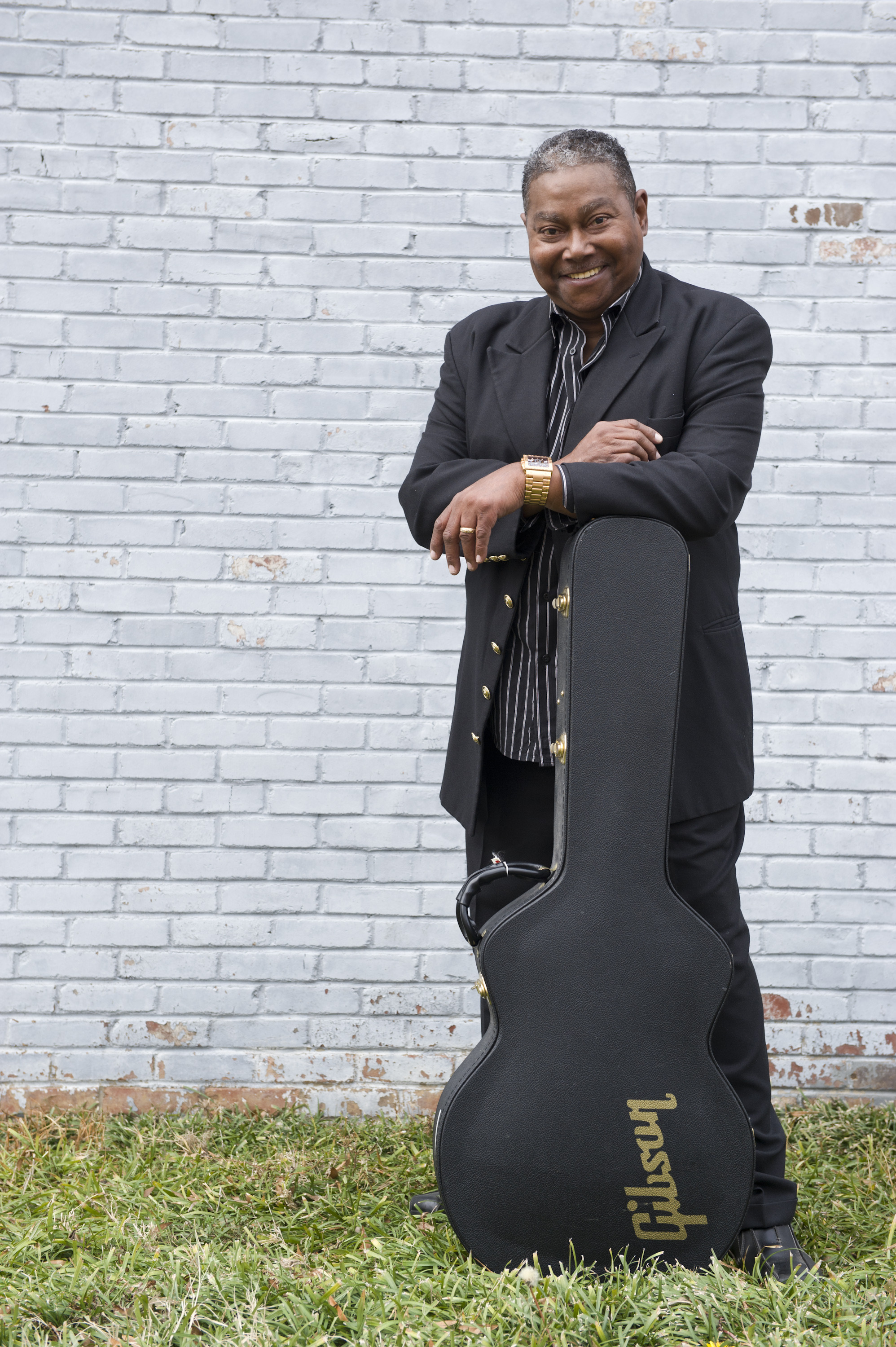 Skip Pitts standing outside Stax Records in Memphis, TN.